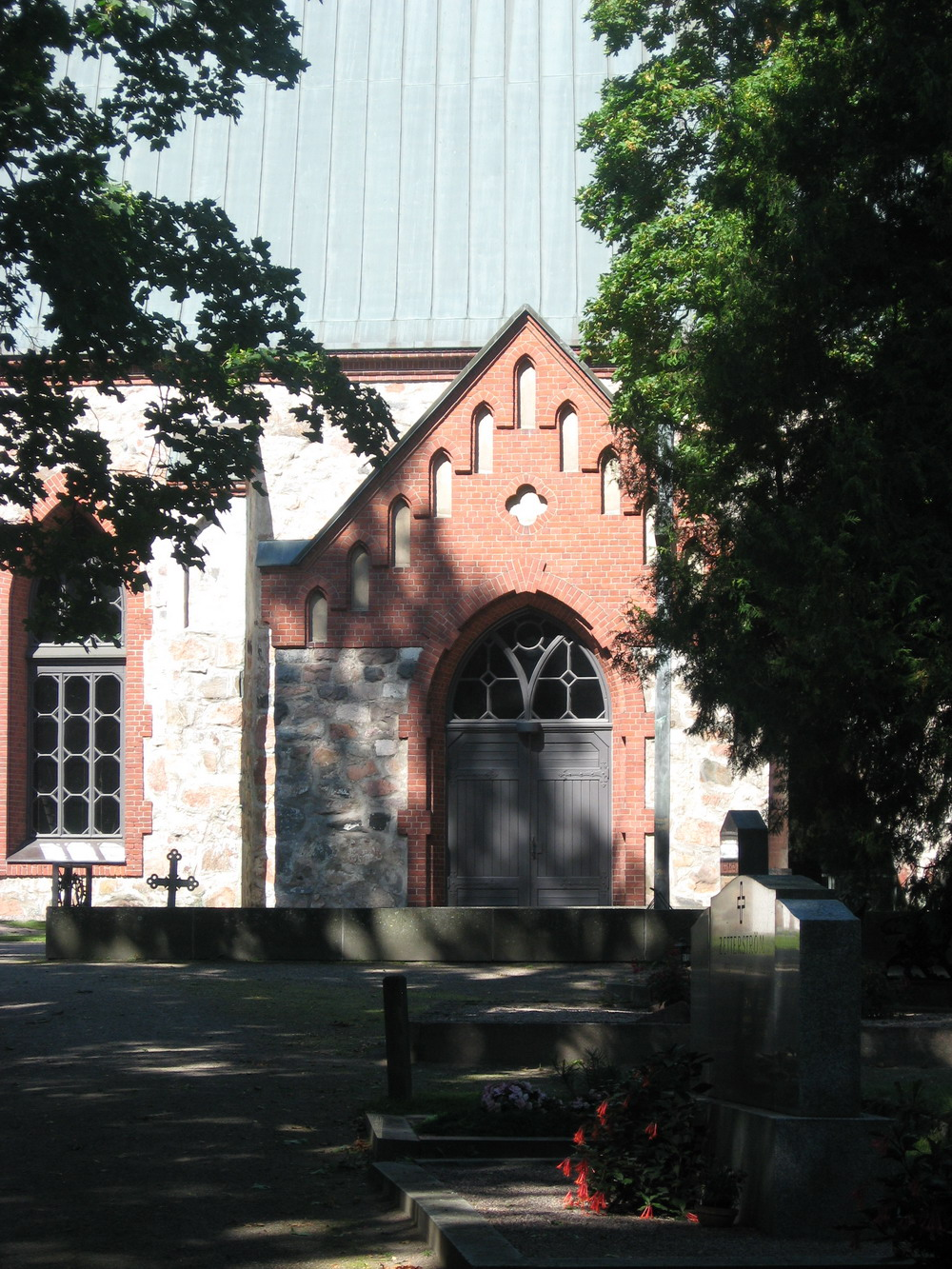 Sain Lawrence medieval church, southern view (partial), Vantaa, Finland